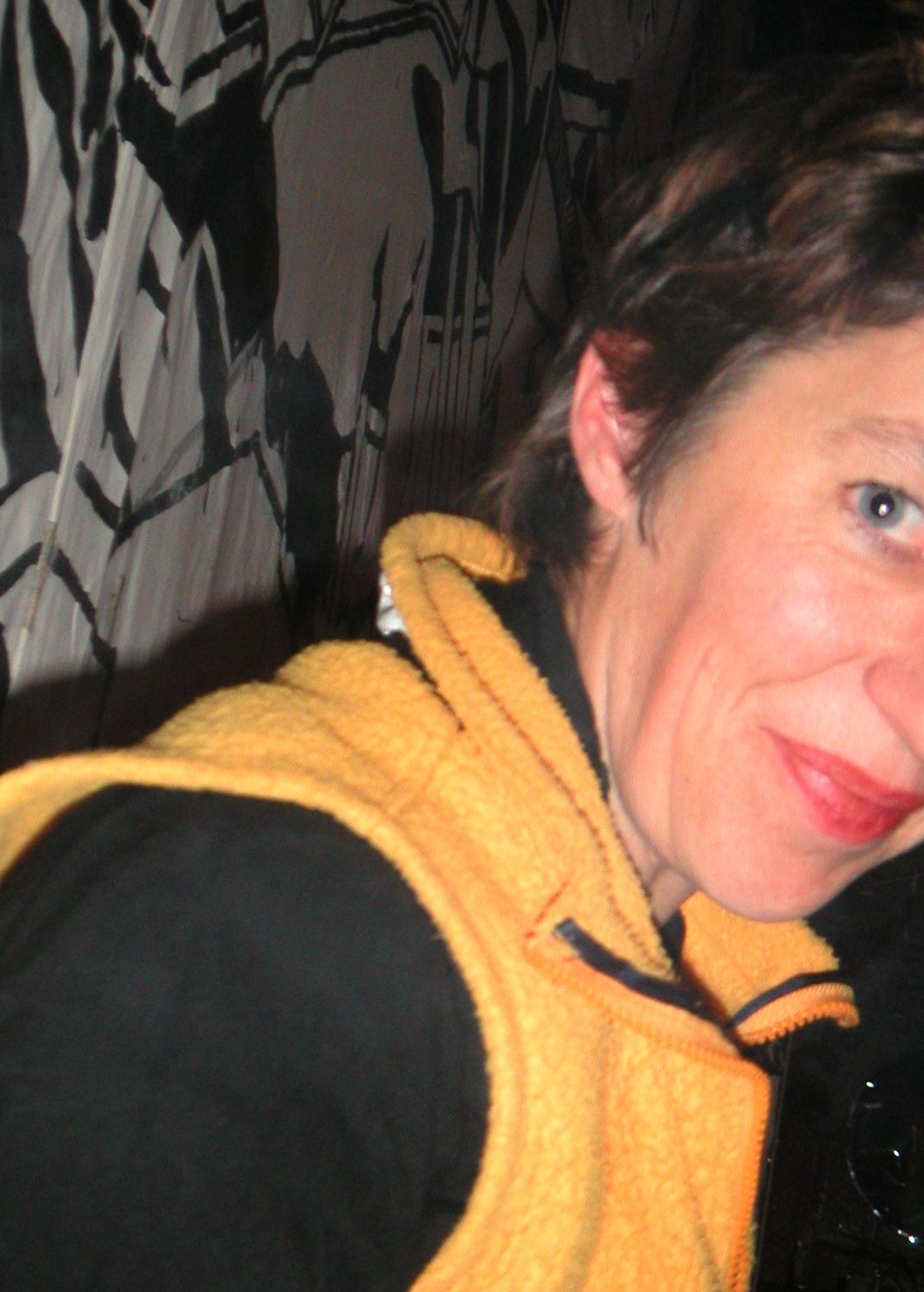 Swiss Artist Bessie Nager at the Museum Plattenstrase in Zürich.